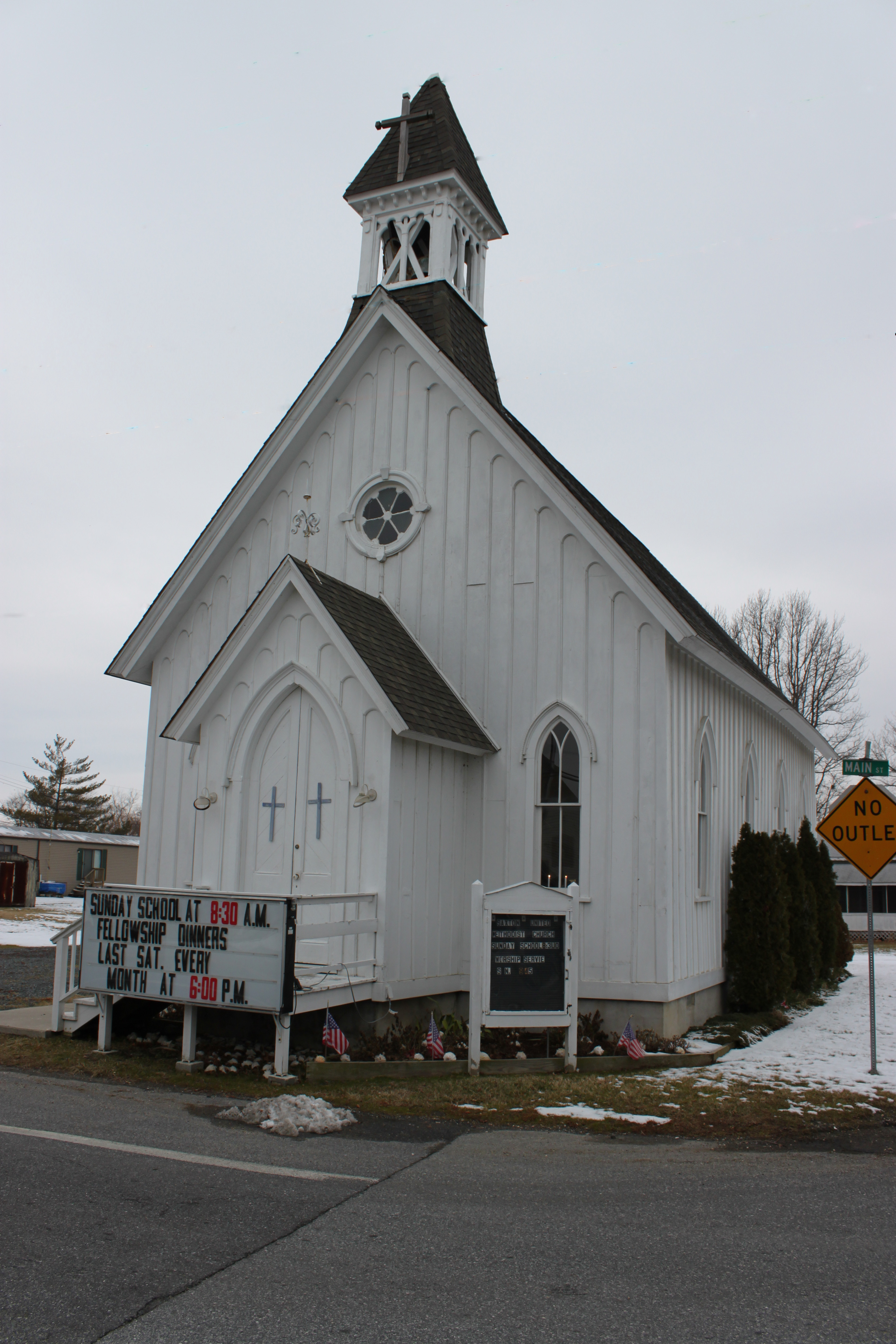 Saxton United Methodist Church, Bowers Beach Delaware, shot from an angle, digitally removed the power lines